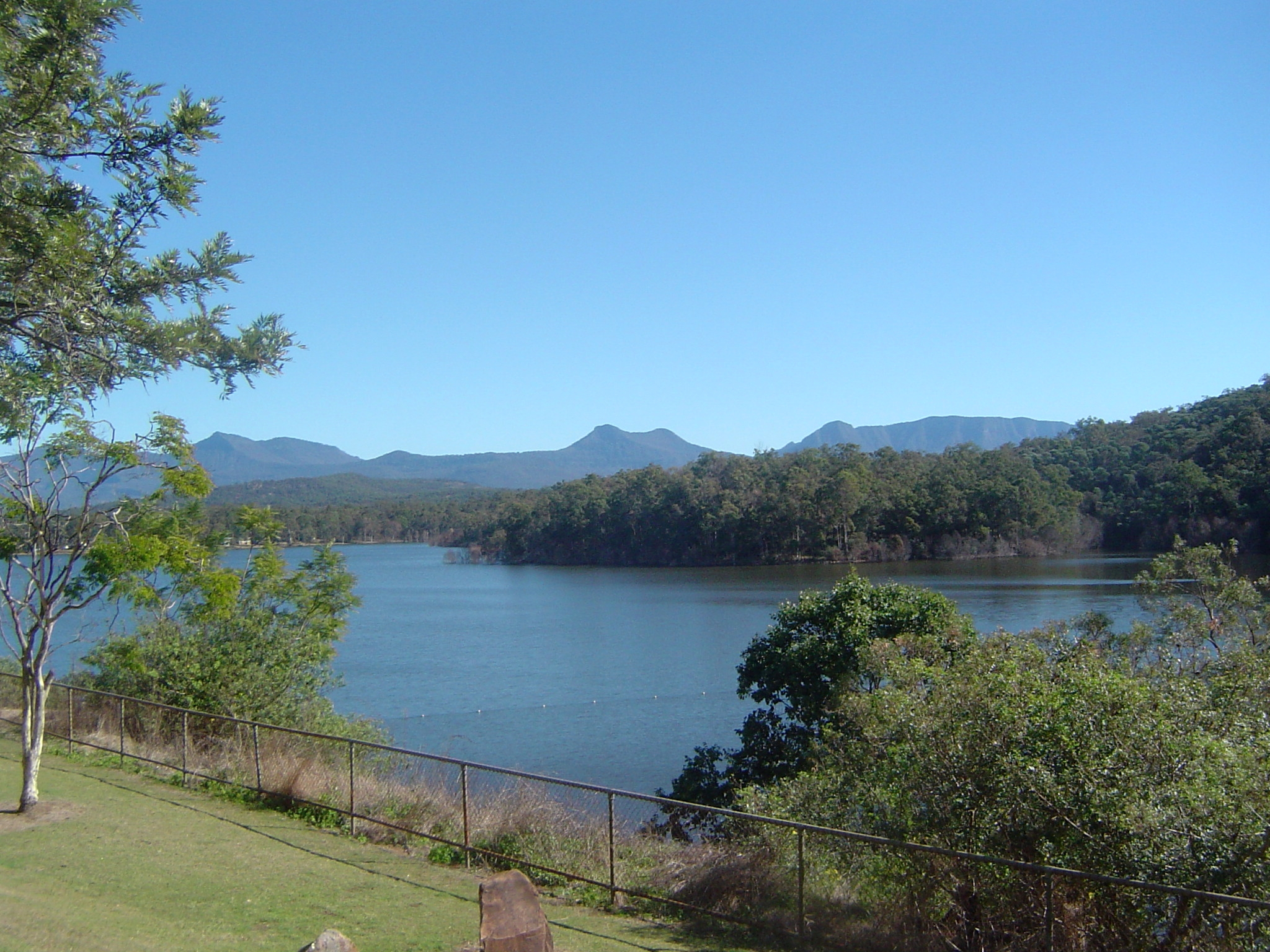 Lake Moogerah near dam wall. Dam level was at 99.5%.